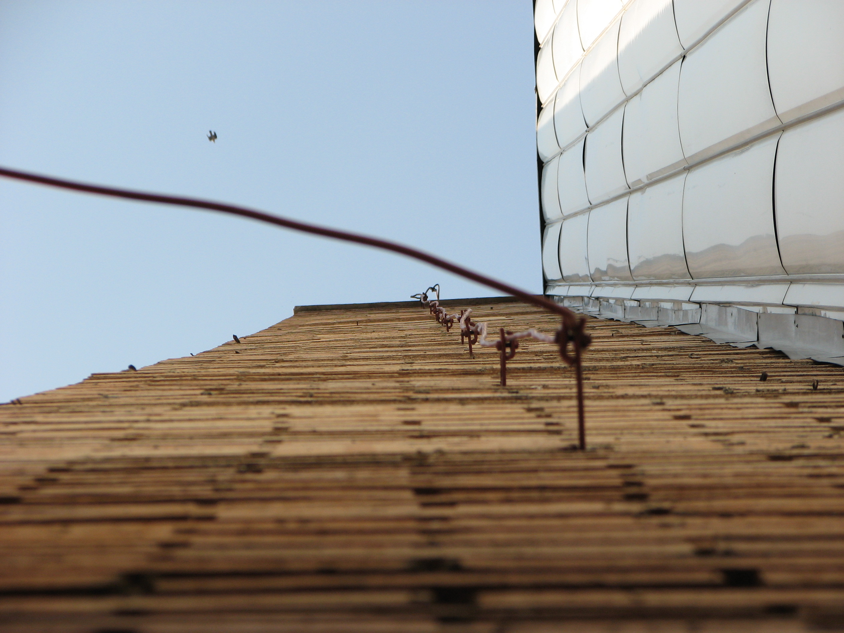 Lightning rod on a brick chimney of an eight floor highrise